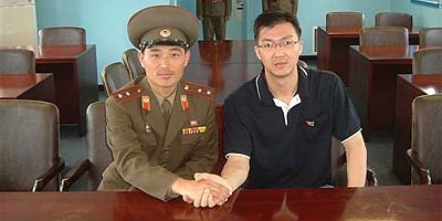 A North Korean soldier (left) and Jean-Baptiste Kim (right)